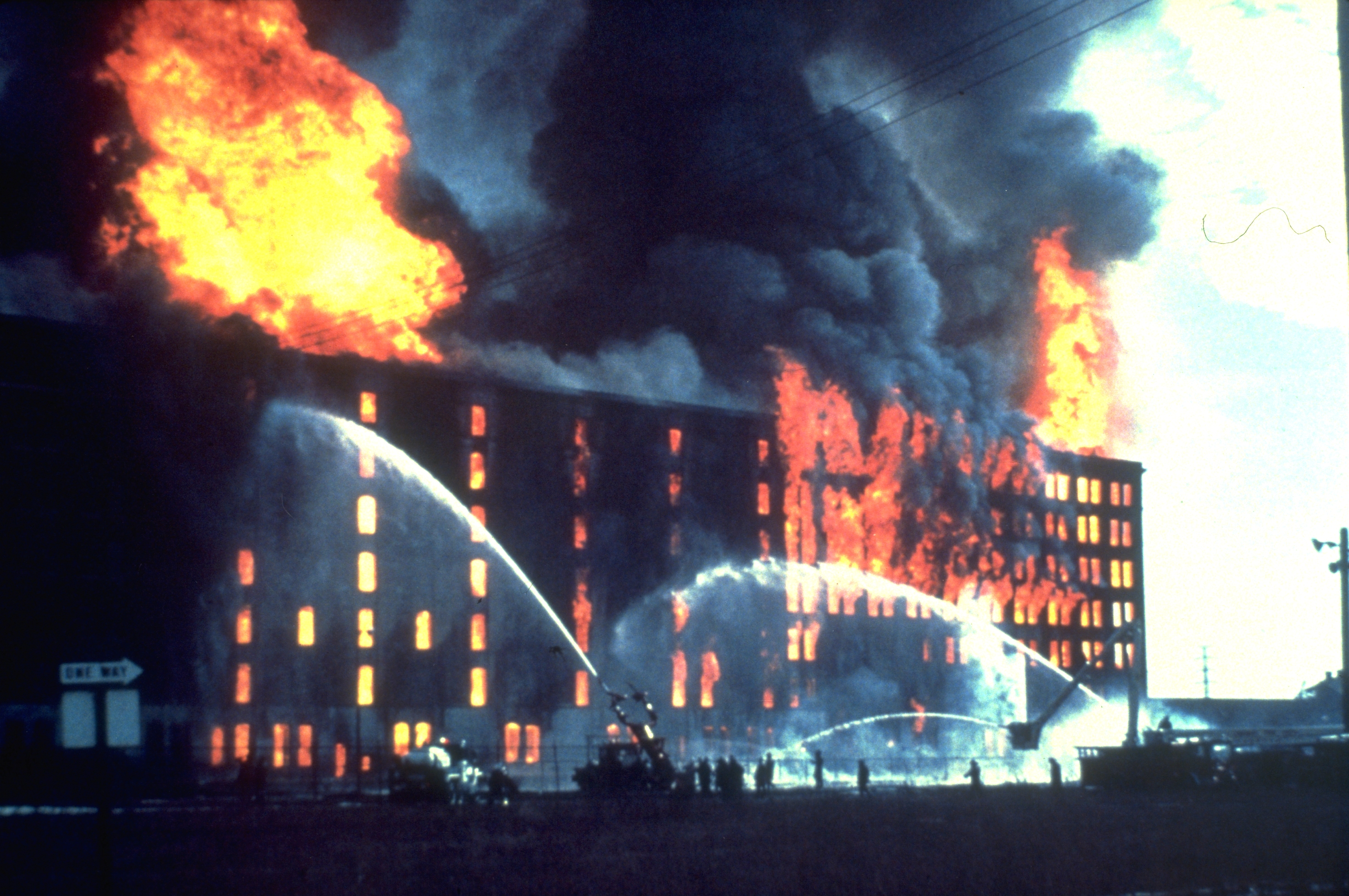 Disasters are devastating to the natural and man-made environment. FEMA provides federal aid and assistance to those who have been affected by all types of disaster. NOAA News Photo